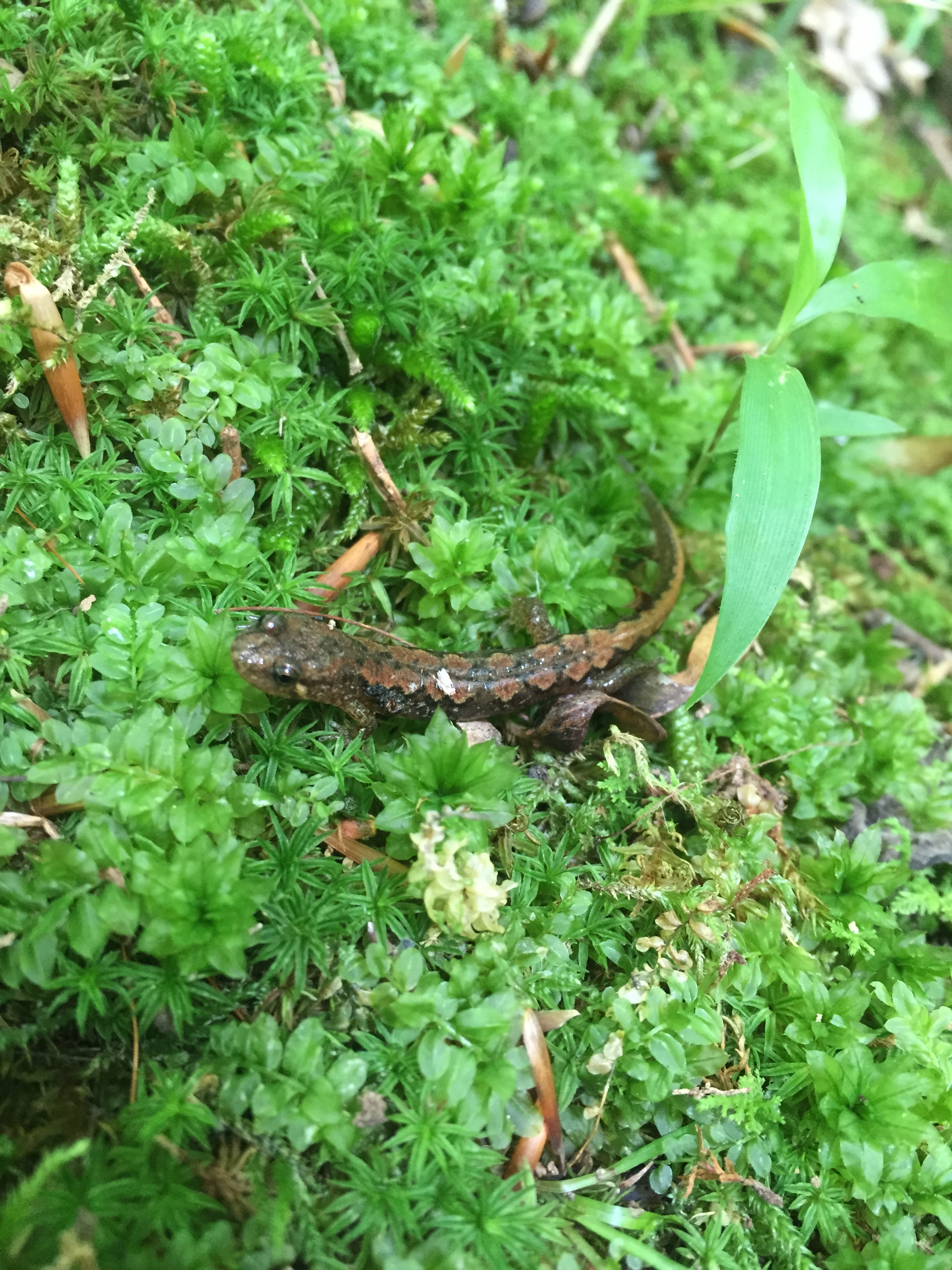 Observed at Keel Spring Nature Trail TN